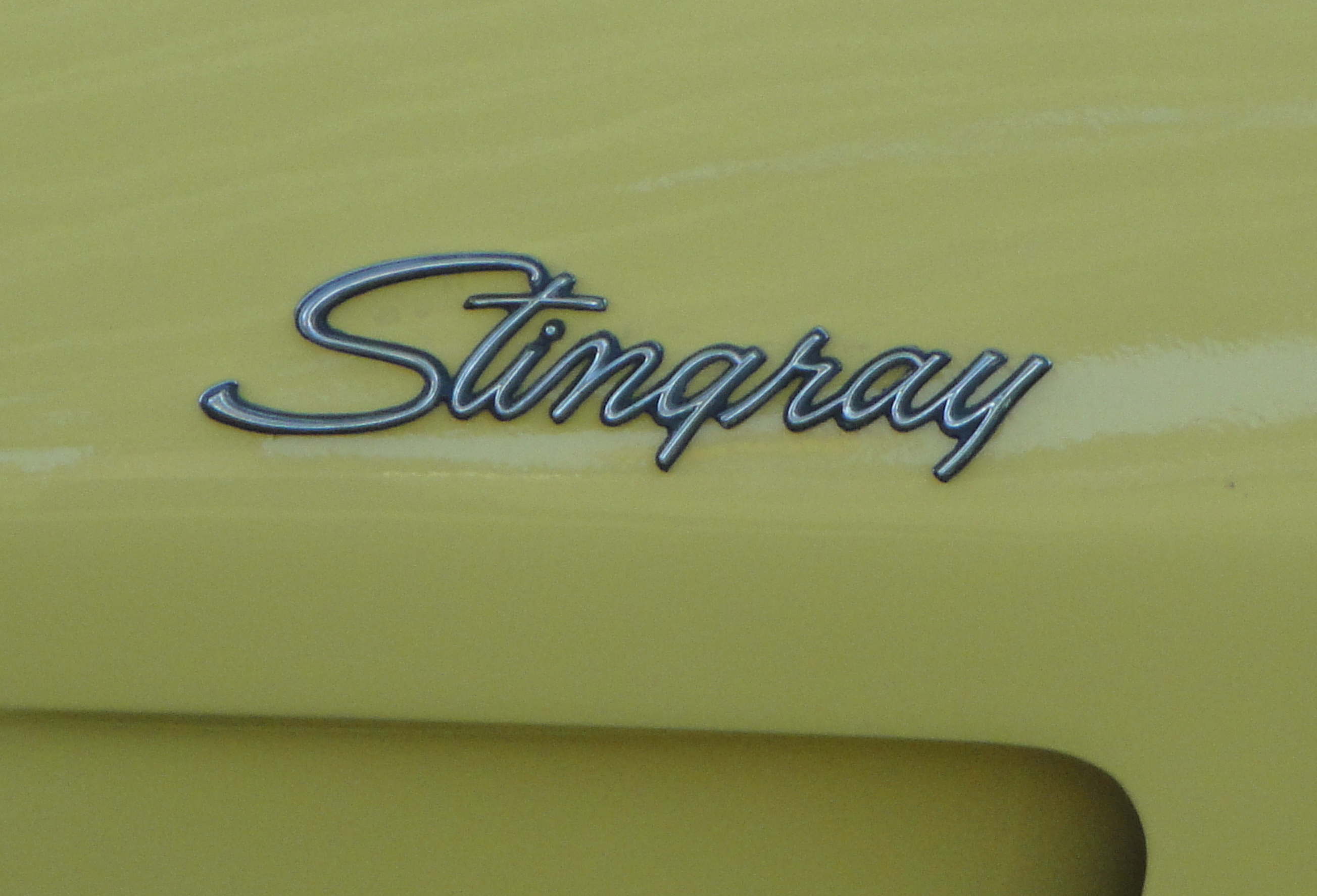 I travelled Up North to my family's cabin to meet a friend that was visiting from California. I spotted some cars along the way and took some shots.